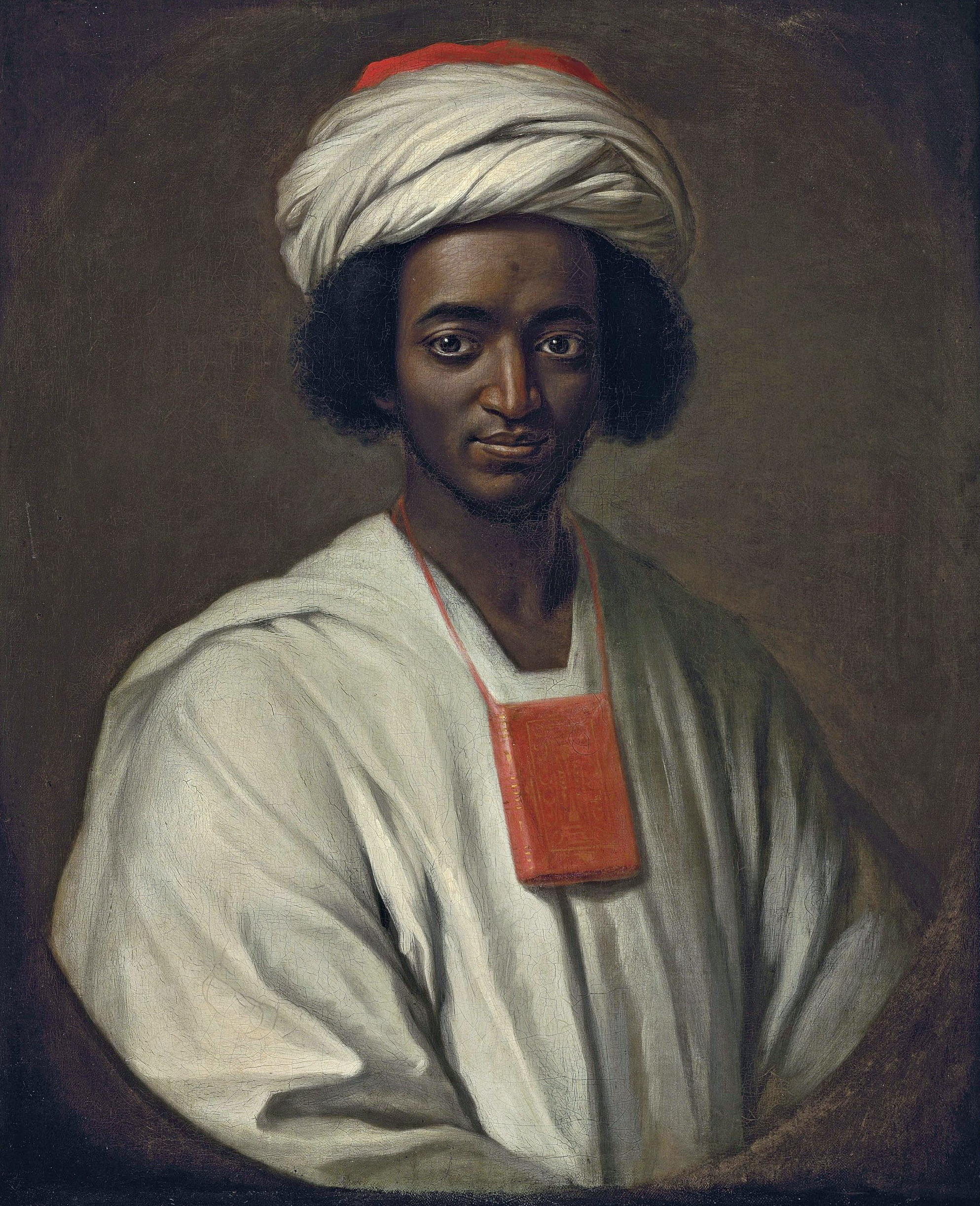 Portrait of Ayuba Suleiman Diallo, called Job ben Solomon (1701-1773) in African dress, with the Qu'ran around his neck